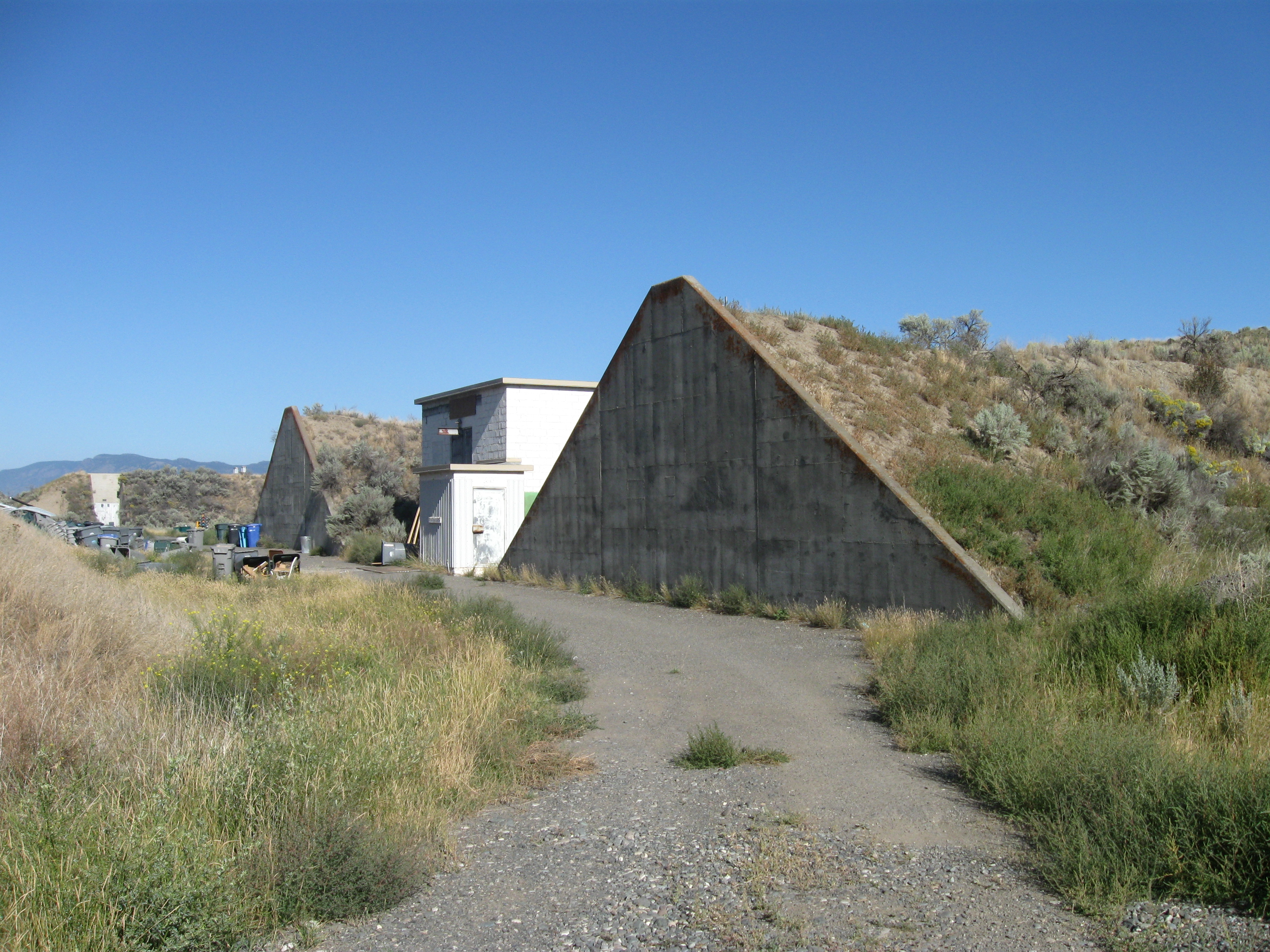 Naval Ammunition Storage Bunkers. Centre structure is the access block house.